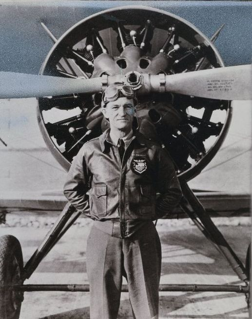 Catalog #: SF-02 Notes: October 29, 1934 Capt. C.L Chennault, leader of The Flying Trapeze poses in front of a Boeing P-12E Repository: San Diego Air and Space Museum Archive